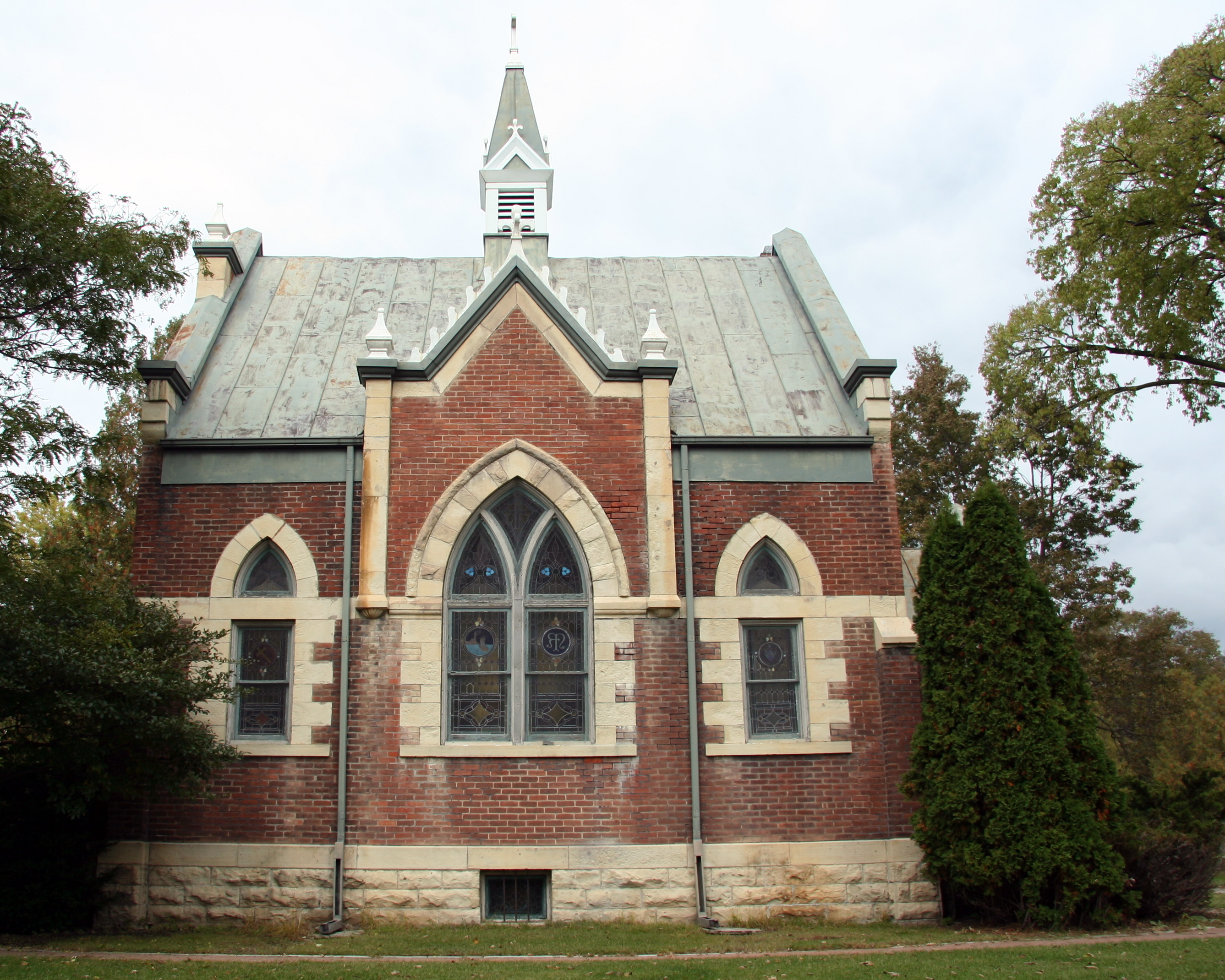 The south side of the Chapel of the Blessed Virgin of the Seven Dolors (Our Lady of Sorrows Chapel), Roman Catholic Cemetery, 519 Losey Boulevard South, La Crosse, Wisconsin, United States